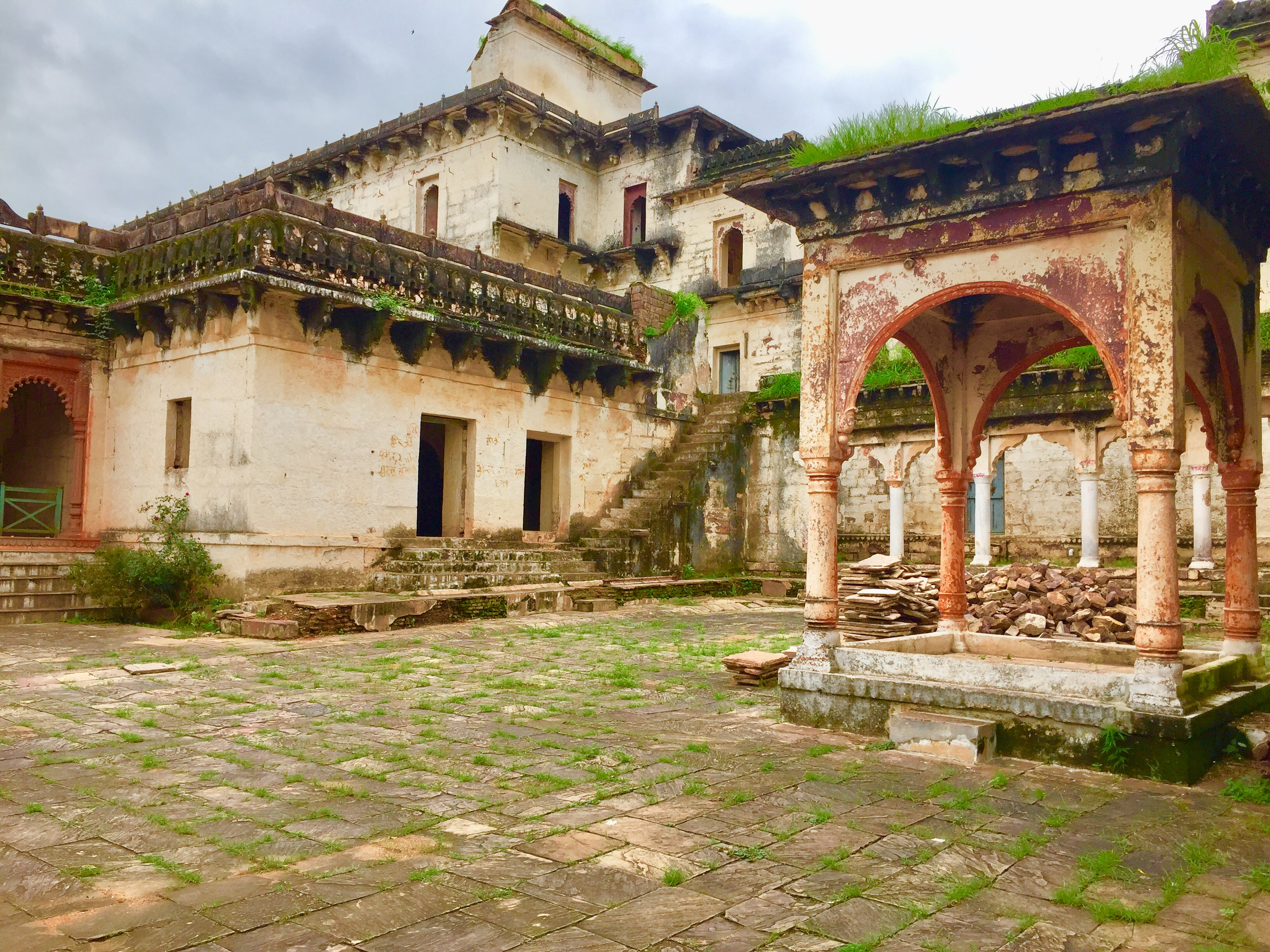 The fort was the summertime destination of maharaja of rewa